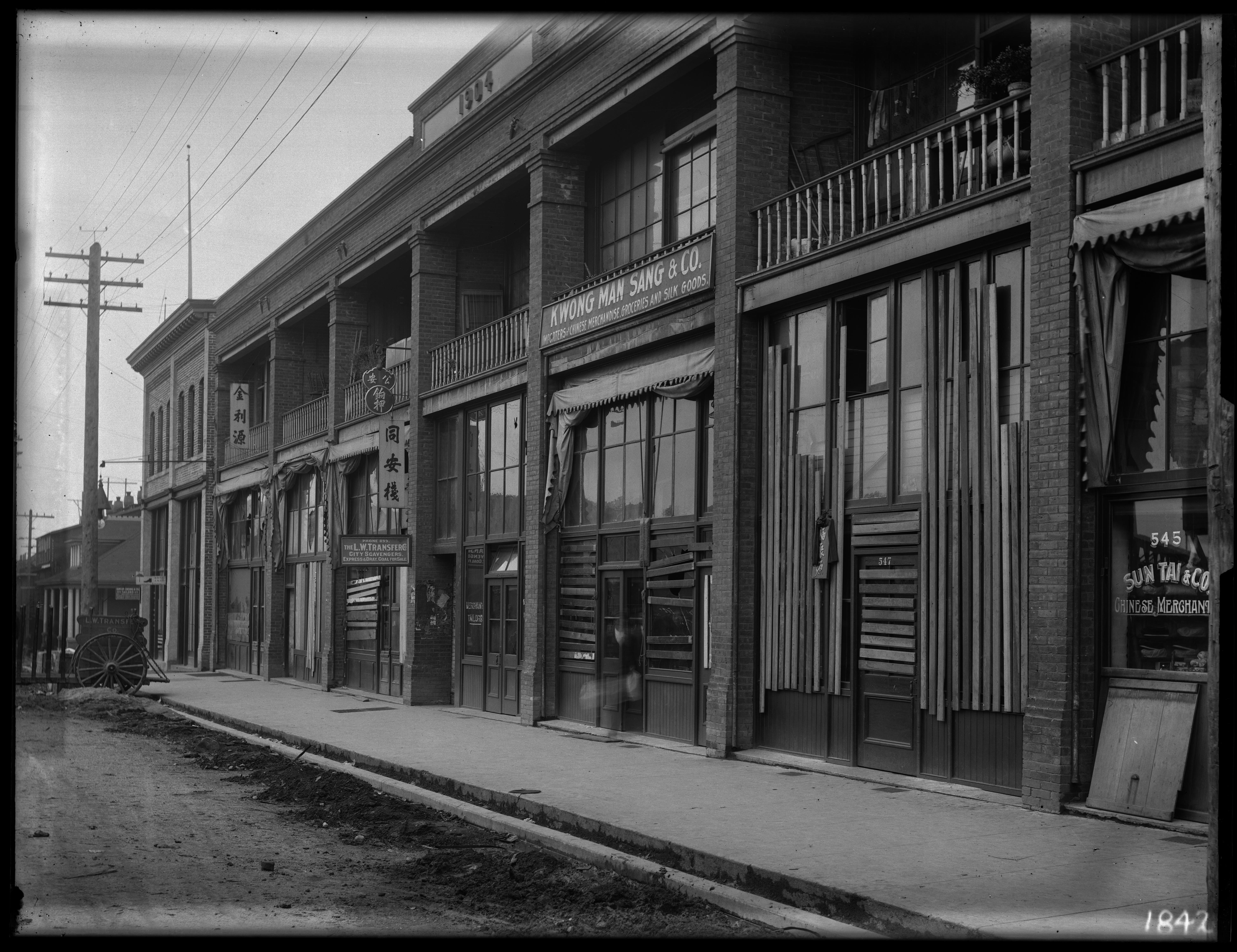 PHOTO NUMBER: VPL 939 DESCRIPTION: Boarded-up buildings in Chinatown after race riots, 500 block Carrall Street (west side), Vancouver, BC DATE: 1907 PHOTOGRAPHER: Timms, Philip SUBJECTS: Buildings, Riots, Emigration and immigration, Racism, Stores More information on our historical photograph collection